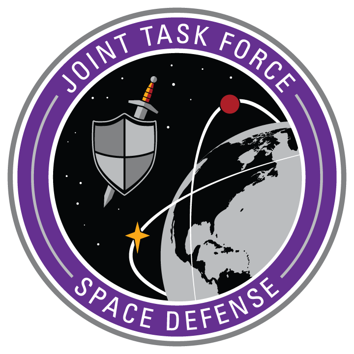 Shield of Joint Task Force–Space Defense